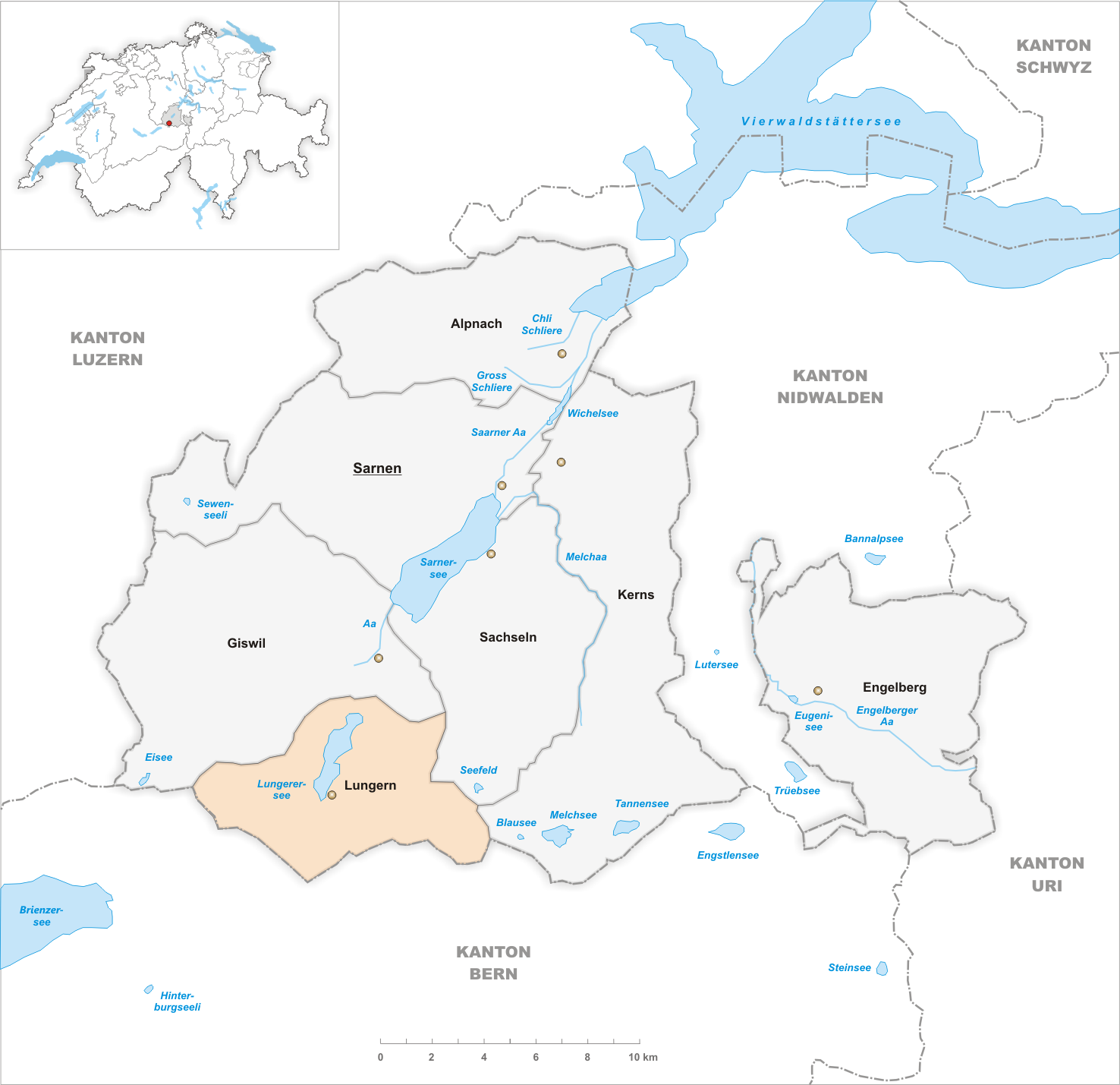 Municipality Lungern